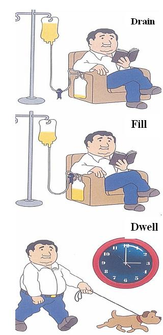 CAPD photo